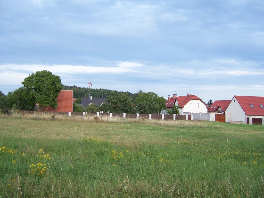 Petříkov-Radimovice